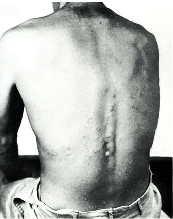 Schistosoma dermatitis: papular eruption on back.